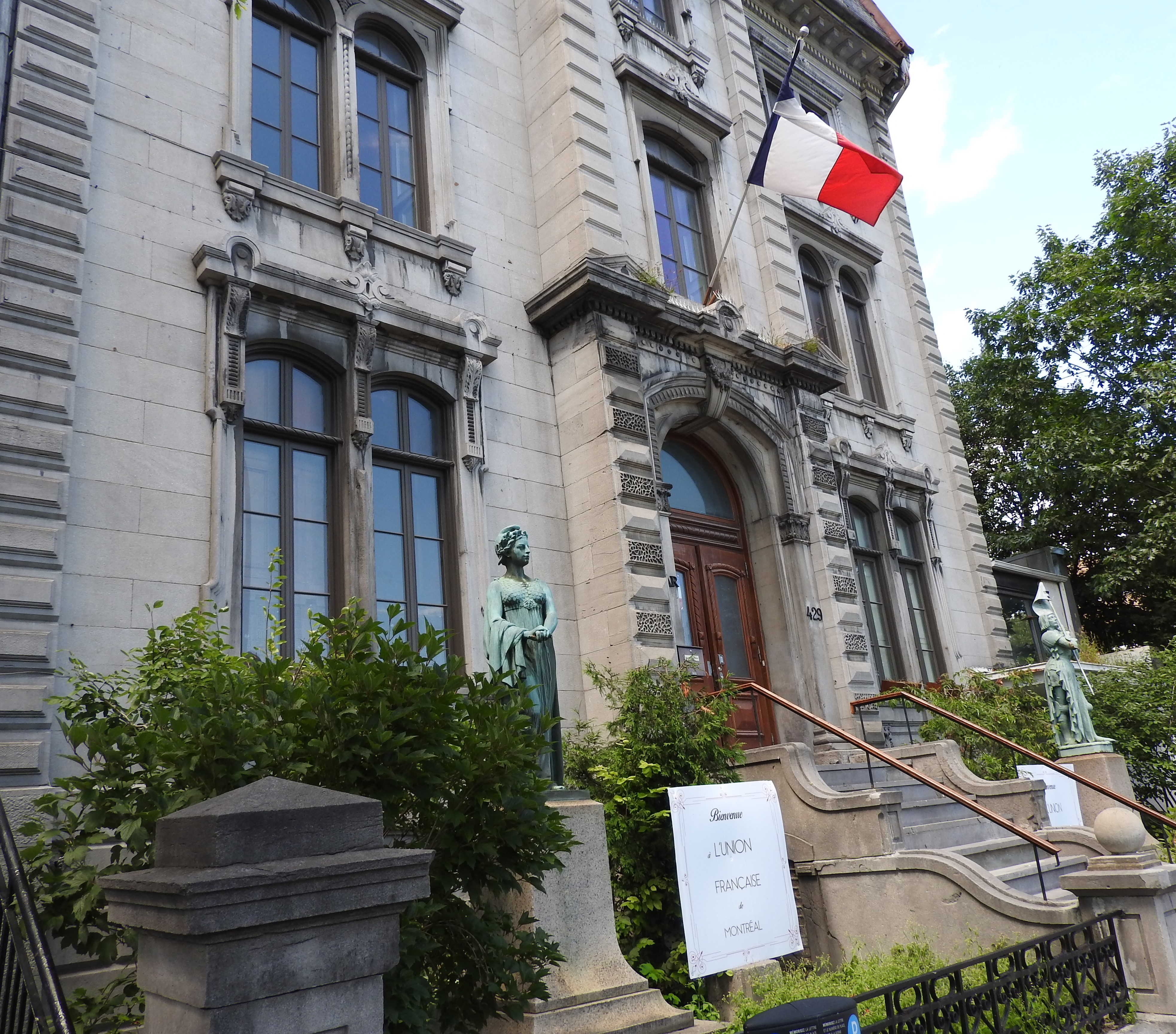 Looking north on a cloudy moment at office.